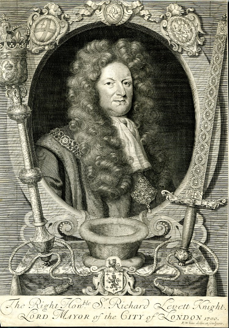 "The Right Hon.ble S.r Richard Levett Knight Lord Mayor of the City of London 1700." Showing the arms of the Corporation of the City of London (top left) and of the Haberdashers' Company (top right) and of Levett Argent semée of cross crosslets fitchy sable a lion rampant of the last (bottom). Engraved portrait of Sir Richard Levett, Lord Mayor of the City of London, 1699-1700 by Robert White. Courtesy of the British Museum.